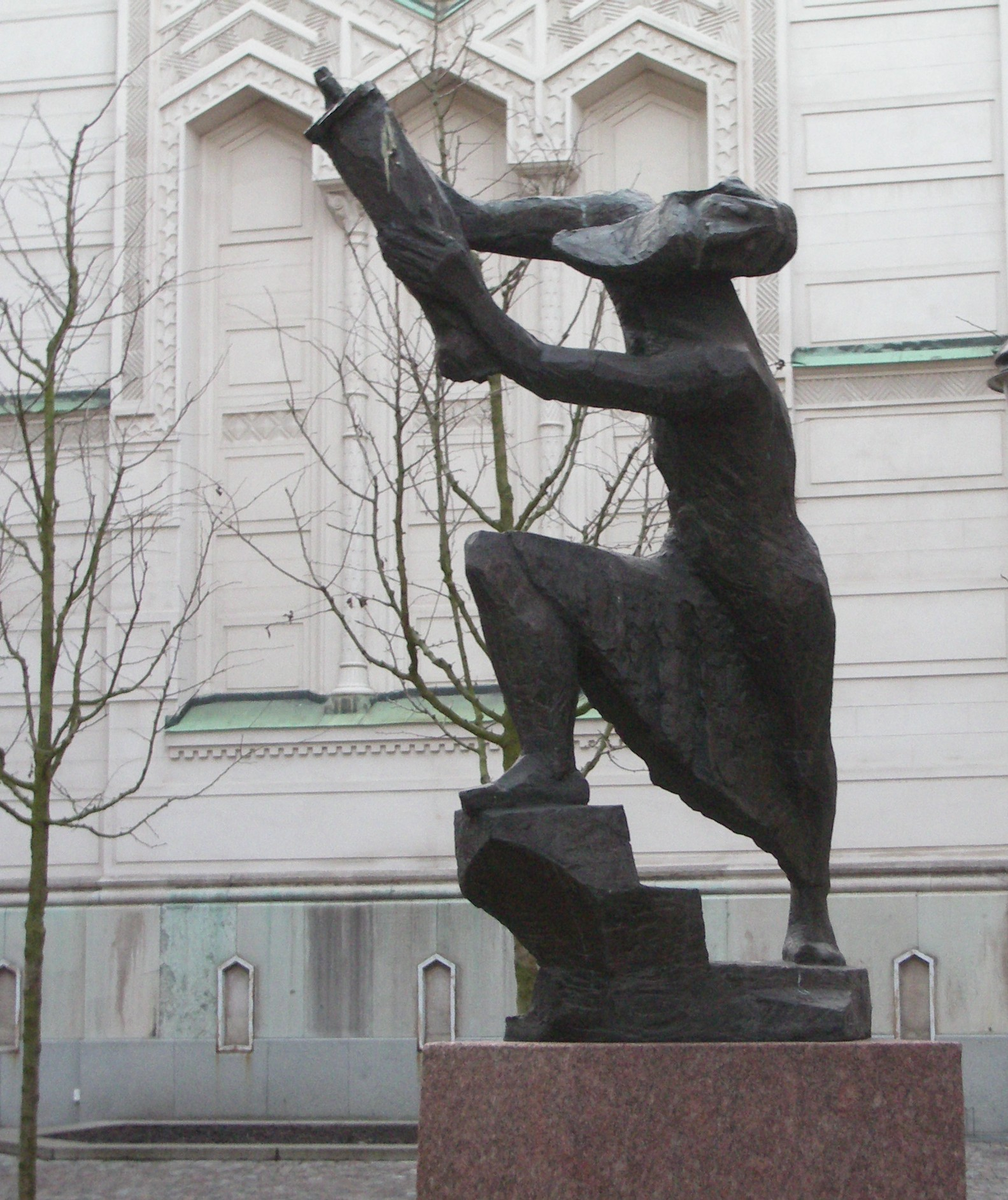 The Flight with the Torah by Willy Gordon (1918–2003), bronze statue outside the Great Synagogue of Stockholm on Wahrendorffsgatan in Norrmalm, Stockholm, Sweden. The statue depicts a Jew fleeing with the scrolls of Mosaic Law. It was originally created in 1945 as a 53 cm (21") tall bronze statue. Later it was cast in greater scale for the Synagogue in Stockholm.